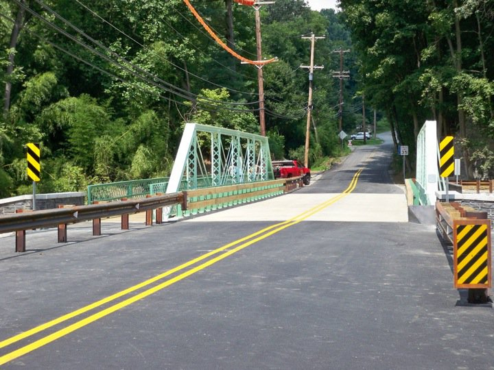 A photo of the newly rebuilt Landenberg Road bridge over the White Clay Creek in Landenberg, Pennsylvania. The original 1871 era span was closed for almost ten years after being deemed unsafe to carry traffic. The new span incorporates the old span's truss work as a decorative, rather than weight carrying feature.